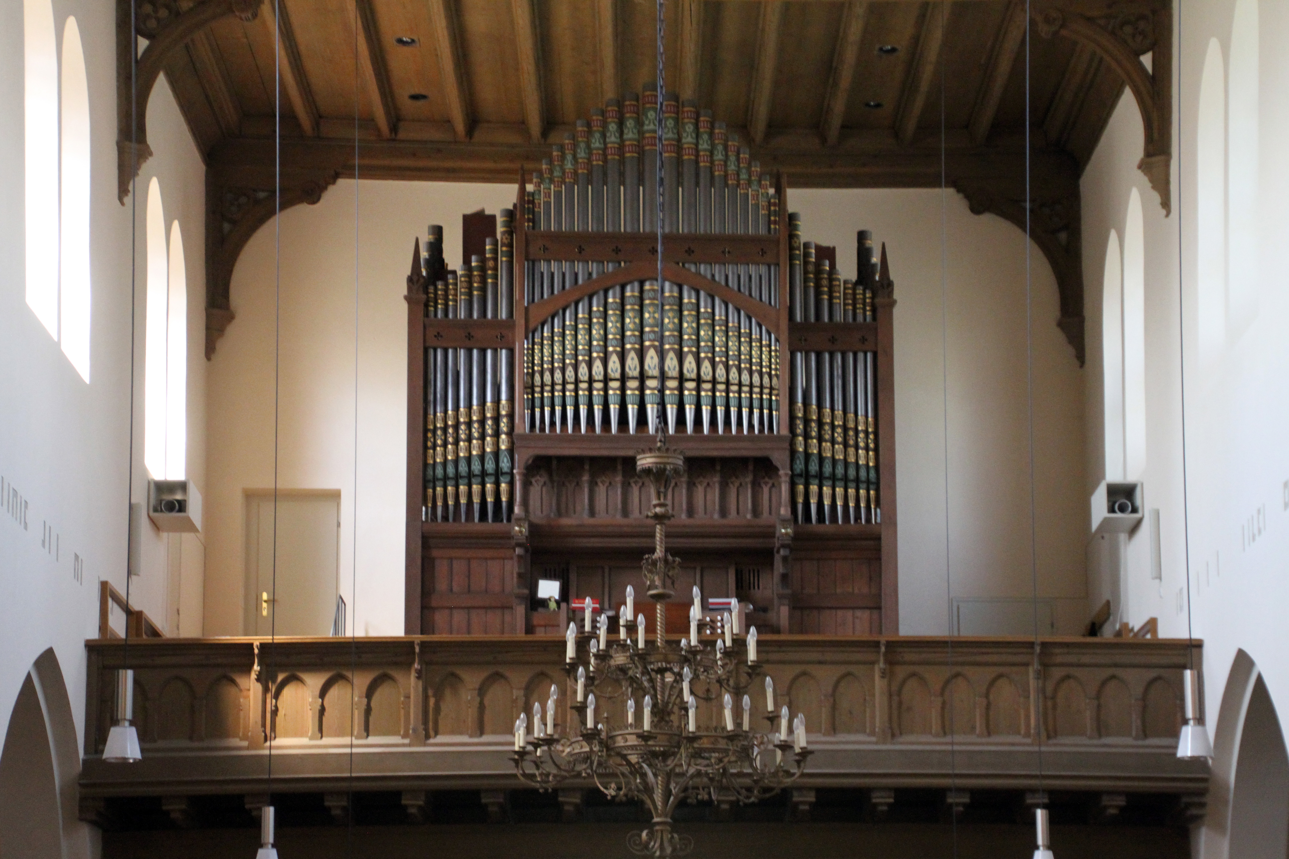 Church of St. Johannes der Täufer in Bühl-Vimbuch, interior decoration.